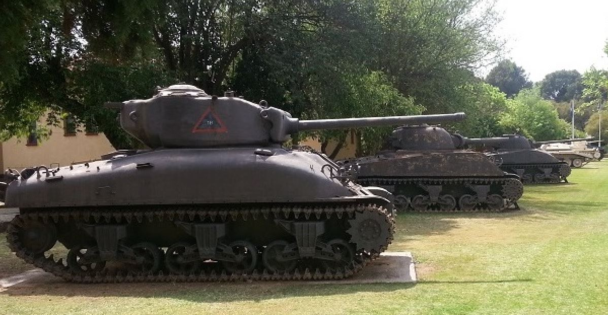 Armour Museum Tempe